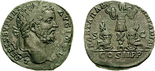 Septimius Severus. 193-211 AD. Æ Sestertius (23.62 g, 12h). Struck 195 AD. L SEPT SEV PERT AVG IMP V Laureate head right PART ARAB PART ADIAB S-C Two captives seated at base of trophy. RIC IV 690a; BMCRE 555; Cohen 367. VF, dark green-brown patina with patches of red, light smoothing on obverse. From the Rudolf Berk Collection.